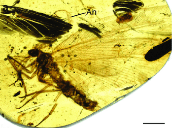 Cretanallachiinae from late Cretaceous Burmese amber. a Burmopsychops labandeirai An antennae, Eye compound eye, Ep eyespot, Ga galea, Lbp labial palp, Lg ligula, Mxp maxillary palp. Scale bars, 2 mm